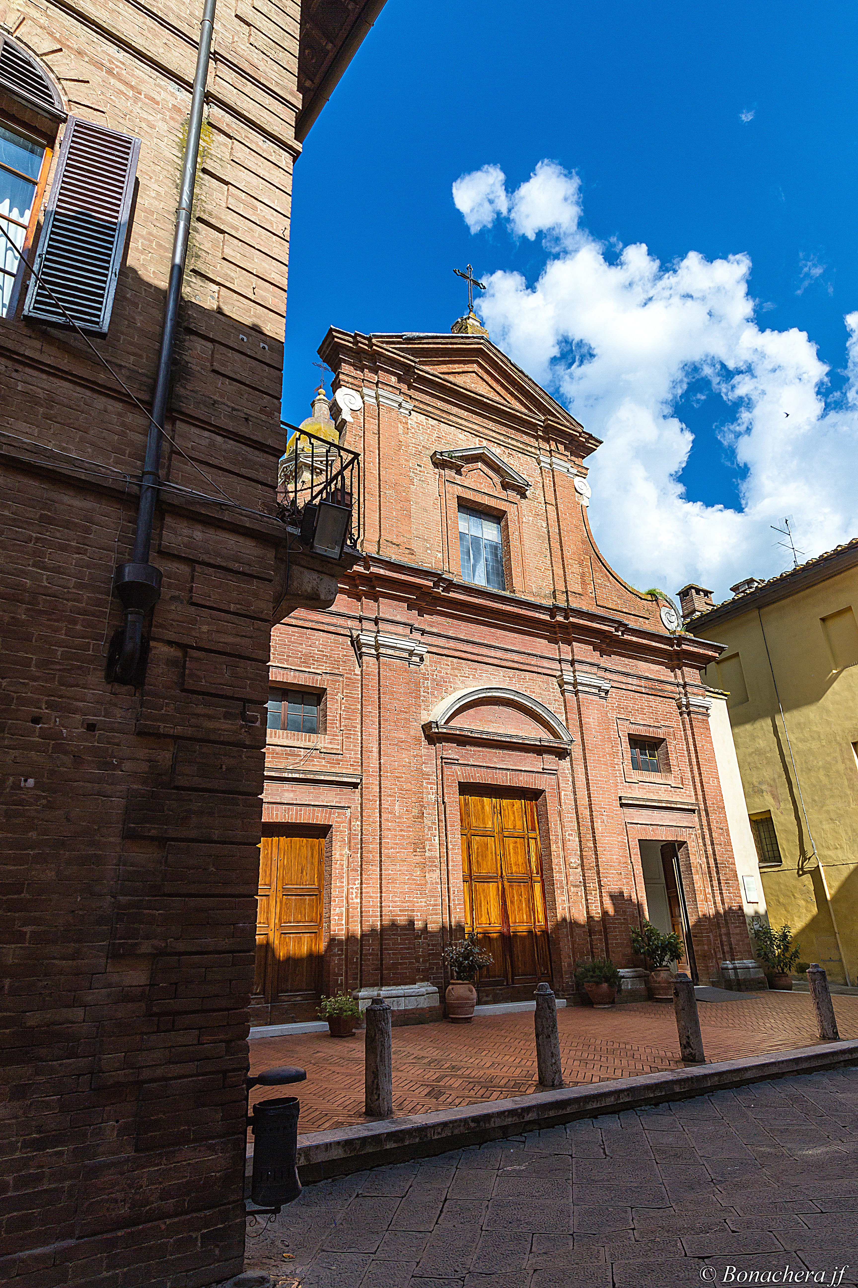 église dei santi pietro é paolo